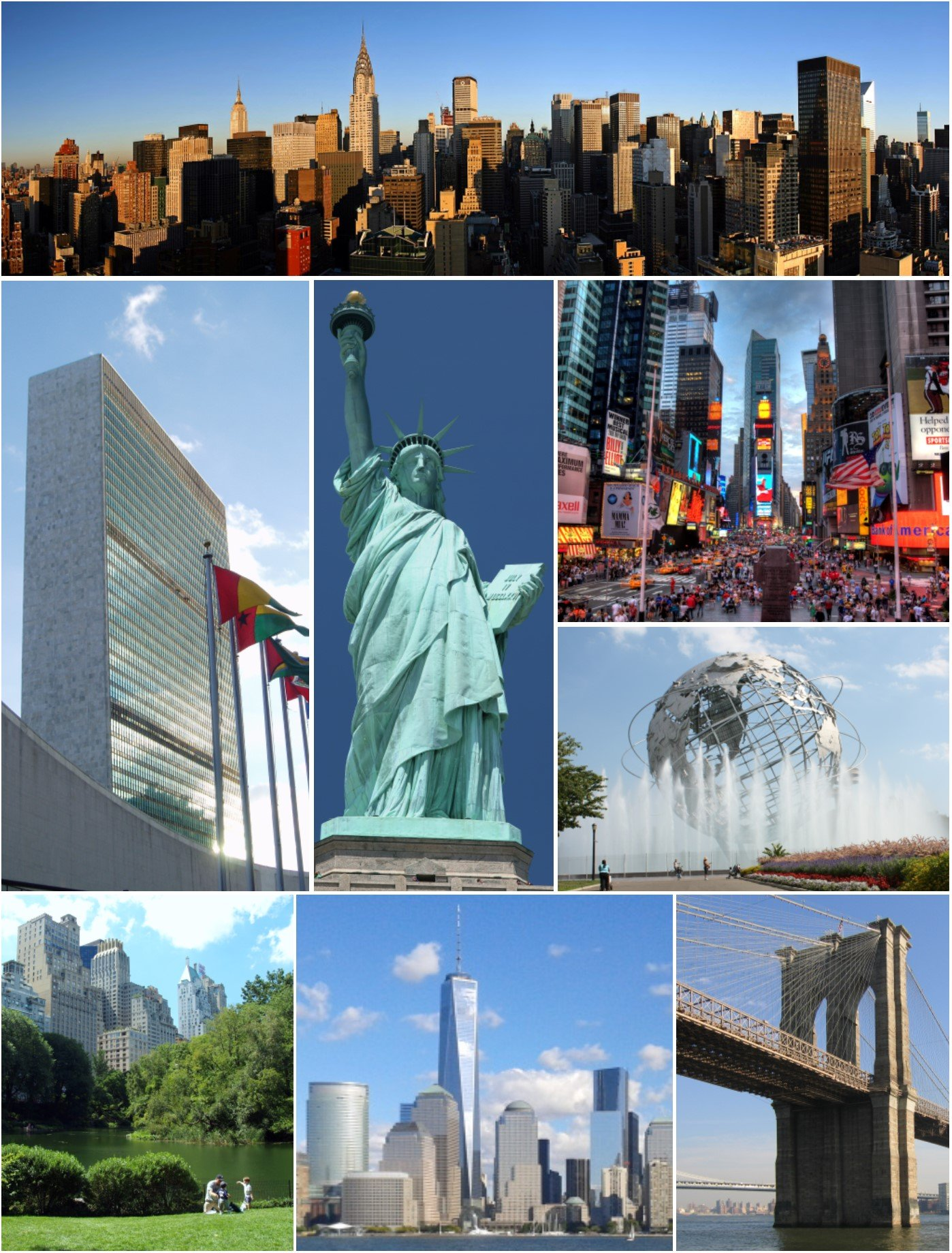 Montage of New York City